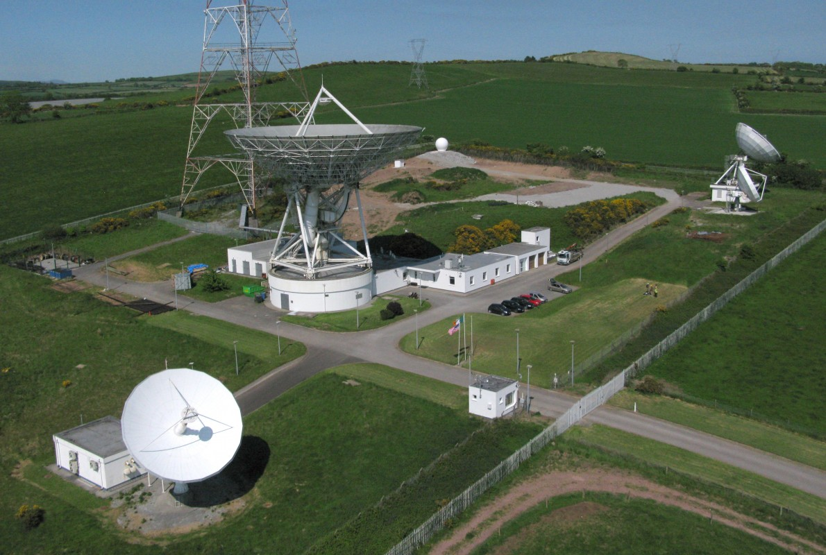 Elfordstown Earthstation in 2013 seen from above. You can see the whole plant with the 32m C band antenna and the main buildings